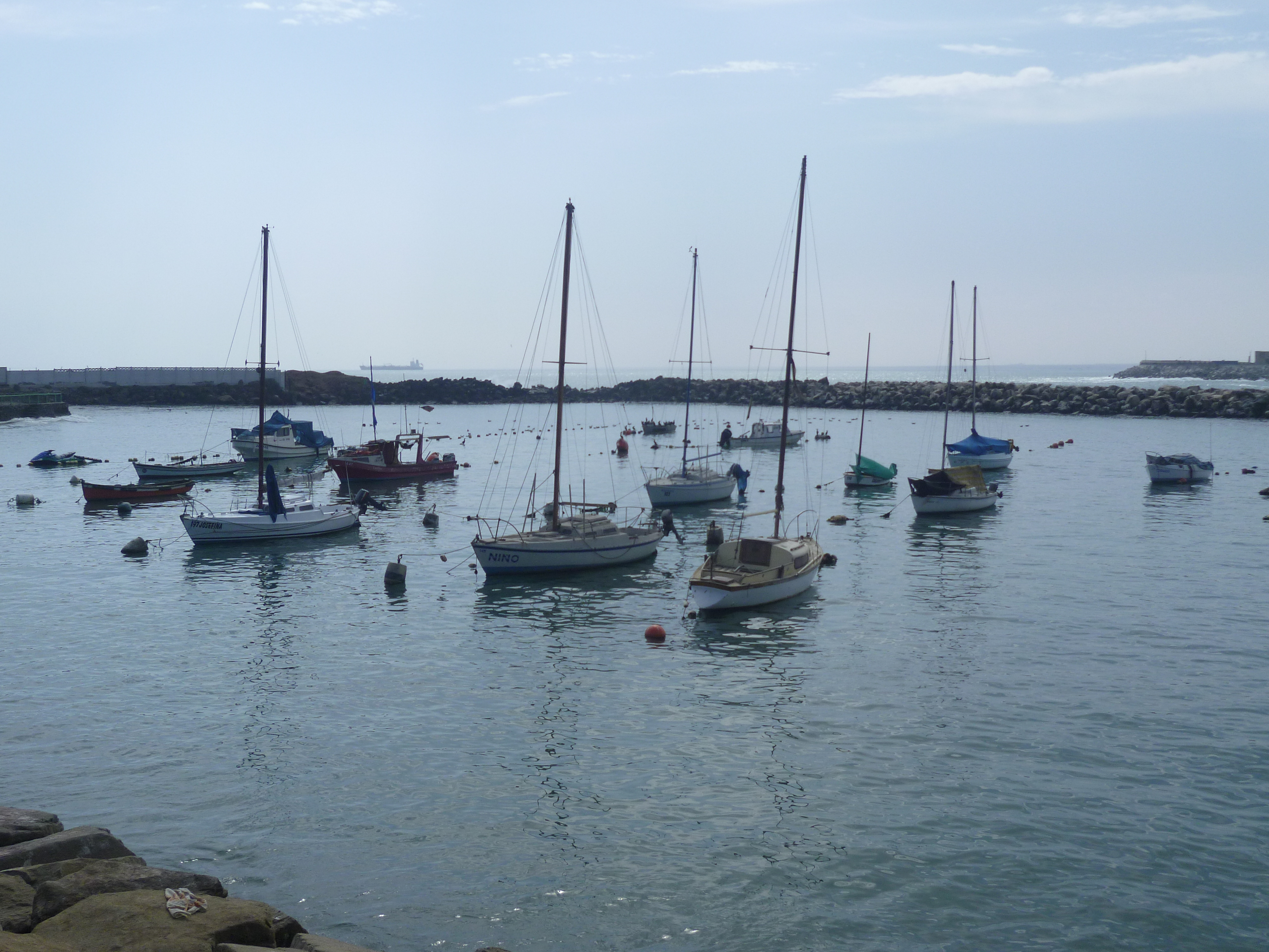 barcos del club de yates